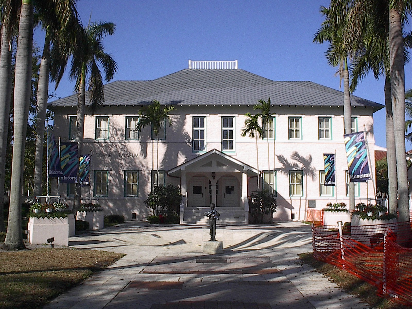 Original school building at Old School Square, Delray Beach, Florida, now the Cornell Museum Photo taken by me, Donald Albury, on 16 January 2007